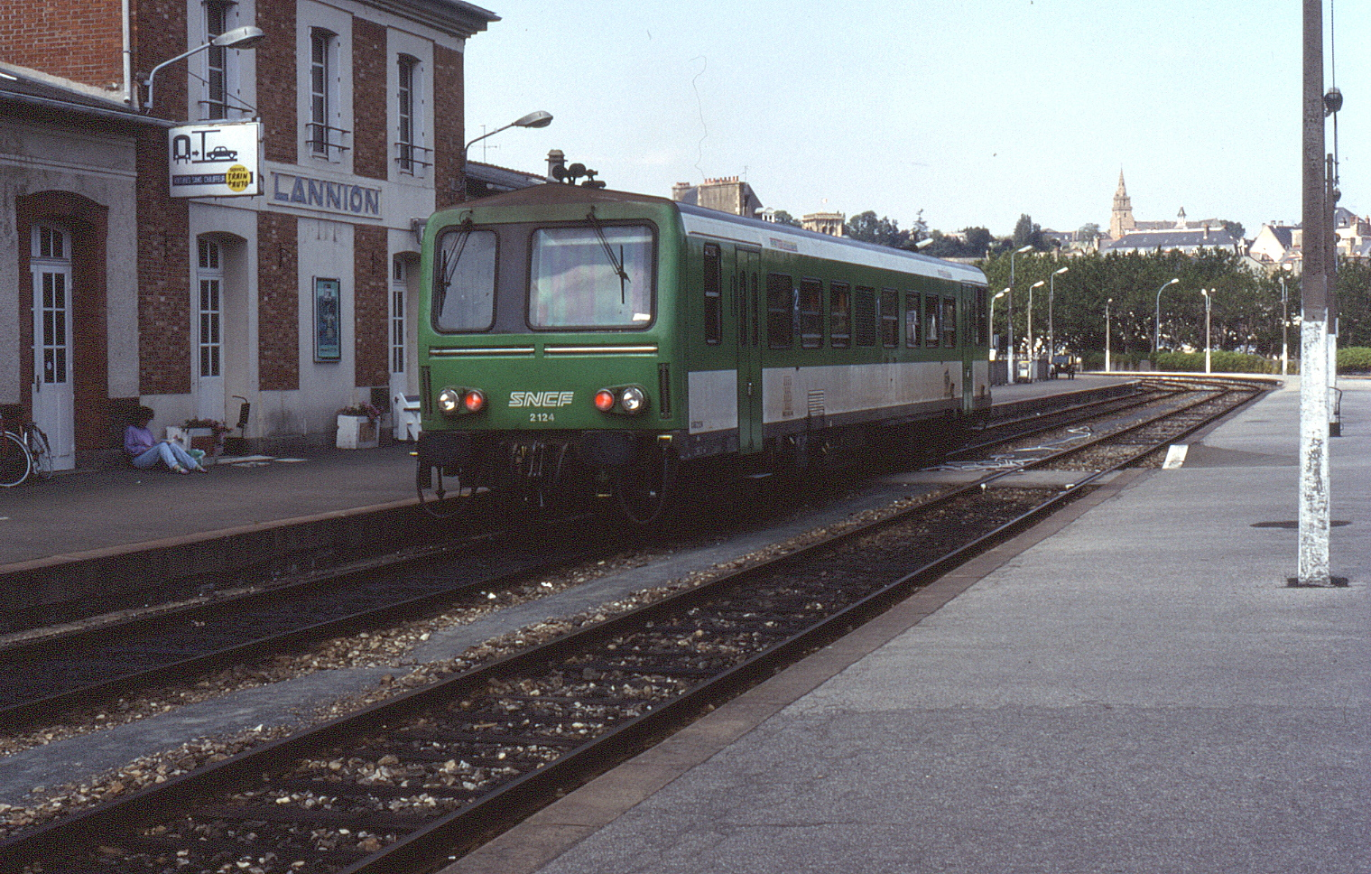 X 2124 waits departure on the 15:51 Lannion (France) to Ploaret-Trégor on 30 July 1990.